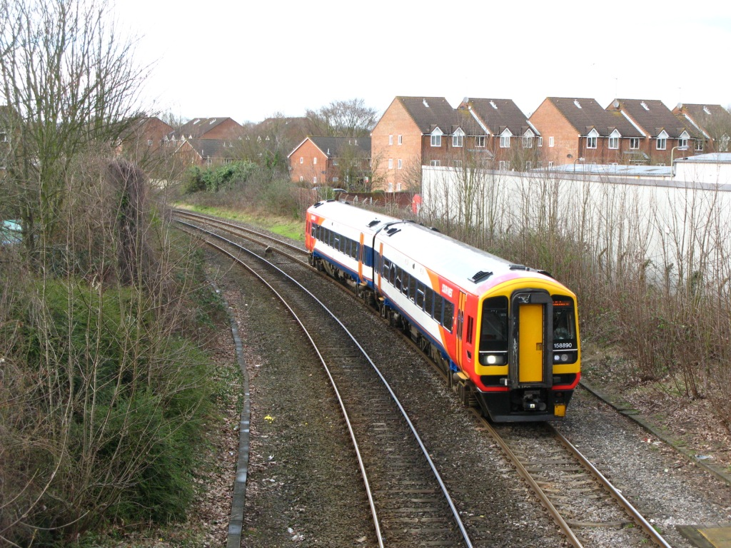 South West Train's 158890 approaches the junction at Eastleigh, Hampshire, England, with a train from Romsey.